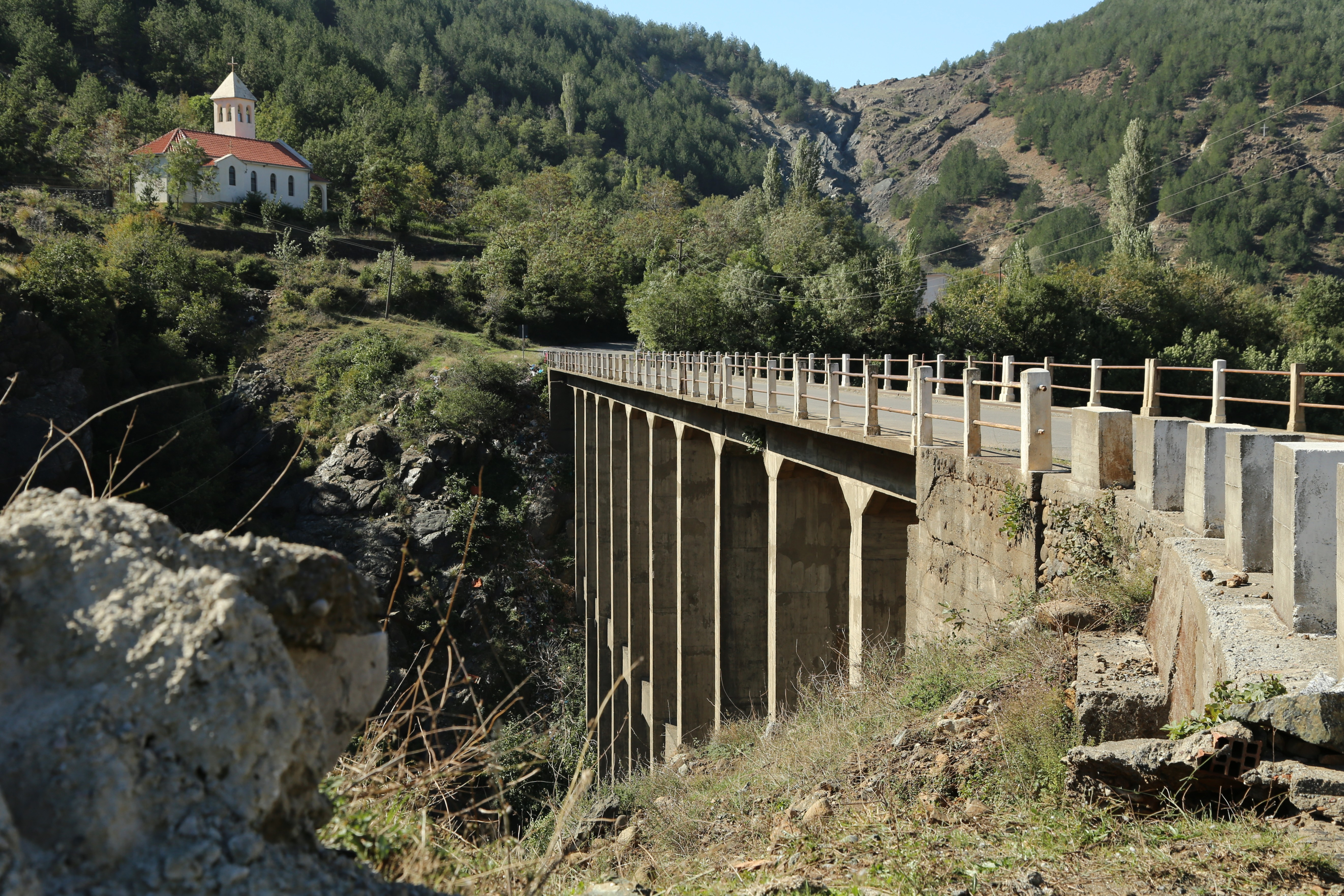 Rruga SH5 in Albania